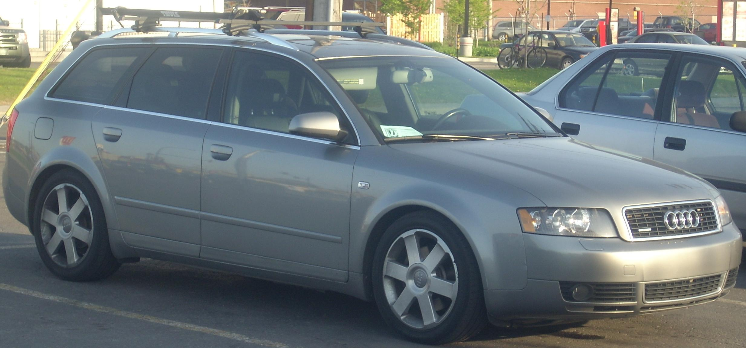 2002-2005 Audi A4 Avant photographed in Montreal, Quebec, Canada at Gibeau Orange Julep.